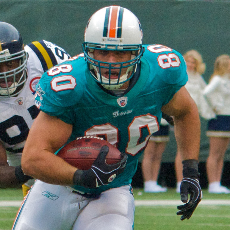 Tight end Anthony Fasano (80) of the Miami Dolphins against the New York Jets at Giants Stadium in November 2009. This file has been extracted from another file: Anthony Fasano Jets-Dolphin game, Nov 2009 - 040.jpg